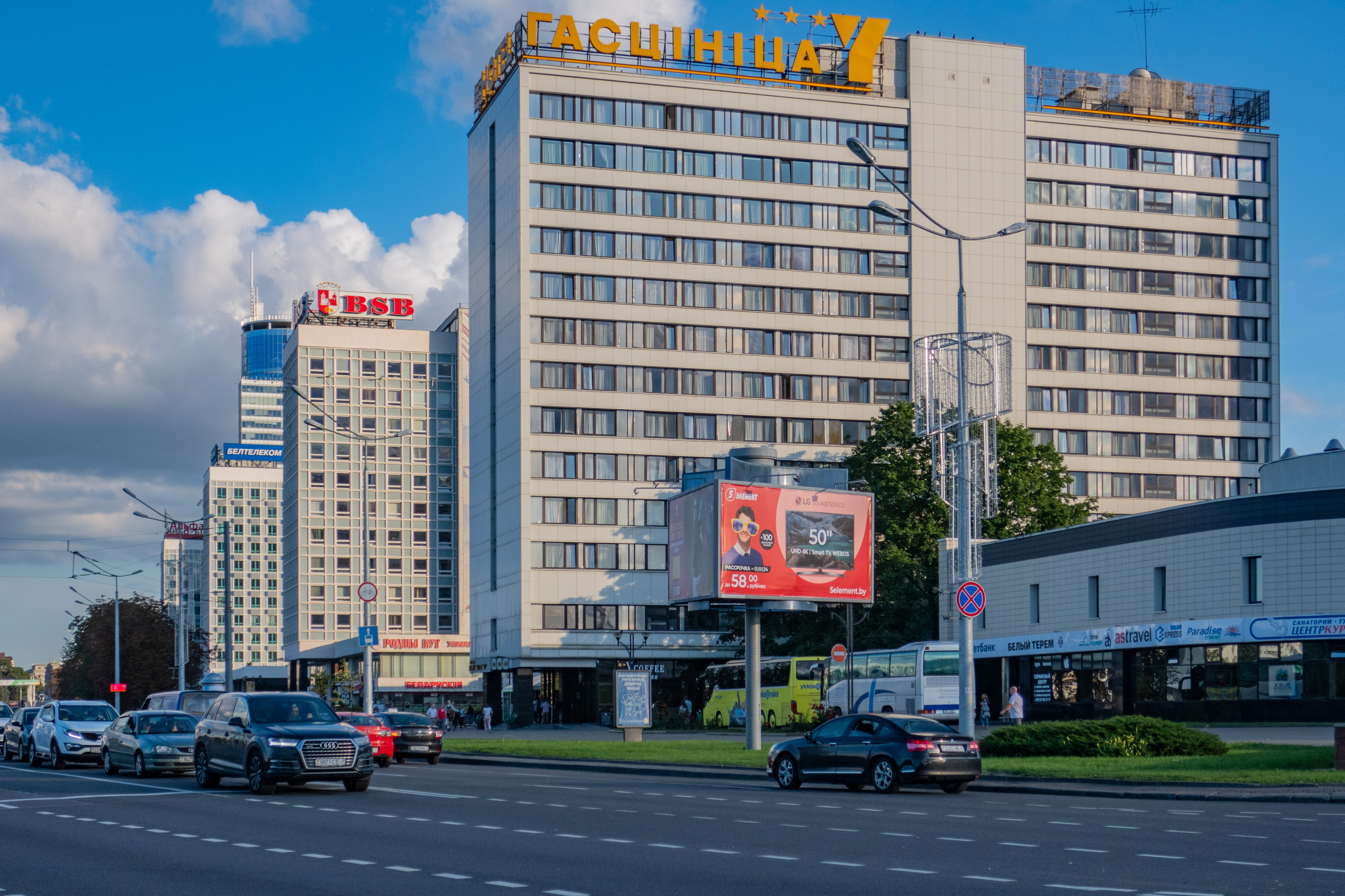 Pieramožcaŭ avenue seen from the intersection with Mieĺnikajte street. Minsk, Belarus